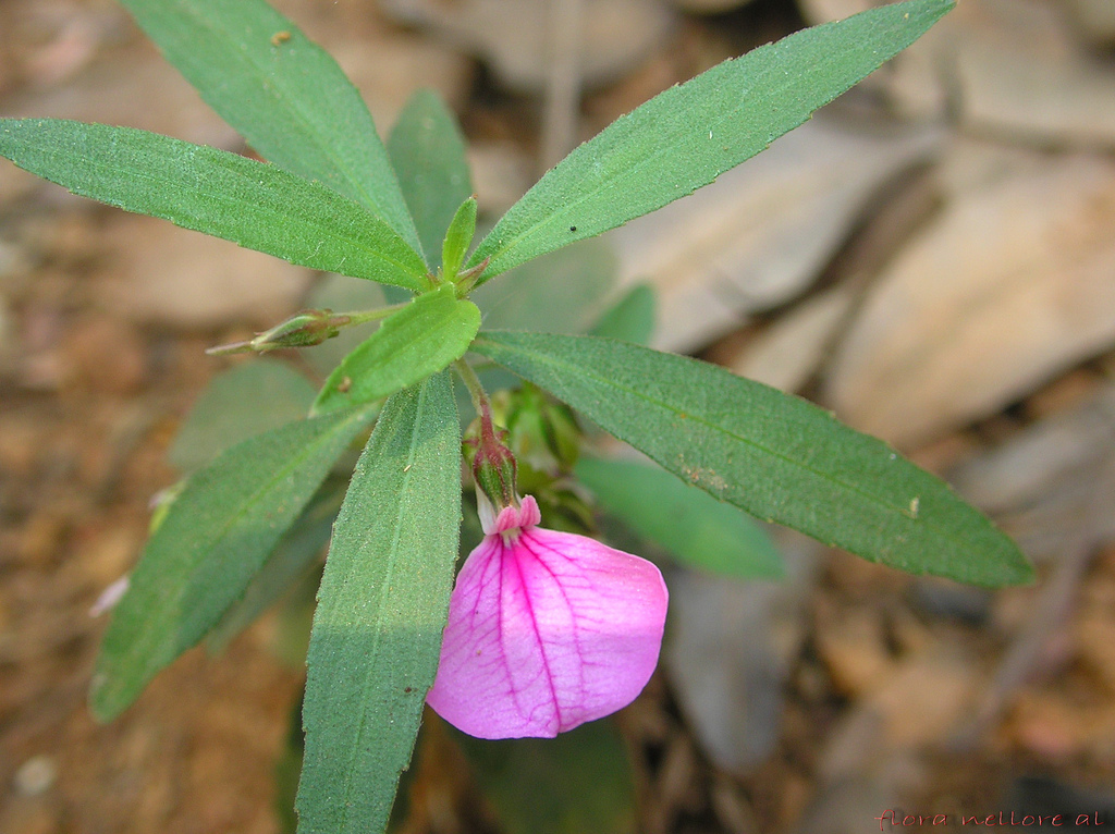 Family: Violaceae Local name(Telugu) :Ratna pushpi. Distribution: A common weed in pastures and open sandy places after rains; Found in Tropics of Asia, africa and Australia. Suffruticose herbs, 10-15 cm tall, Leaves elliptic or lanceolate, serrate, acute, base attenuate; Flowers axilary, solitary, purple; sepals 5, subequal, petals 5, the lower one on a long claw, spurred at the base, anthers 2spurred at the back, ovary 1 celled, style simple, ovules many on parietal placentation; Fruit a 3 valved capsule. It is used as tonic in Ayurvedic medicine.